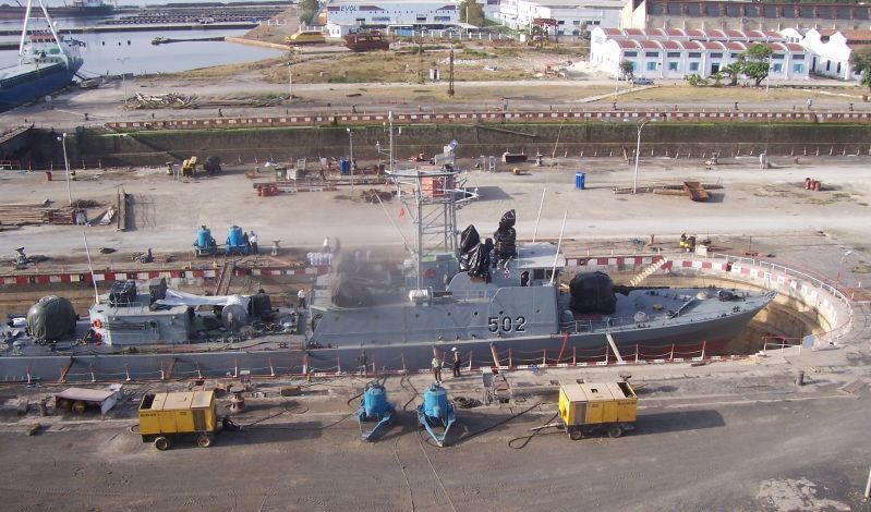 Ship building in Menzel Bourguiba (C.M.R.T), Tunisia